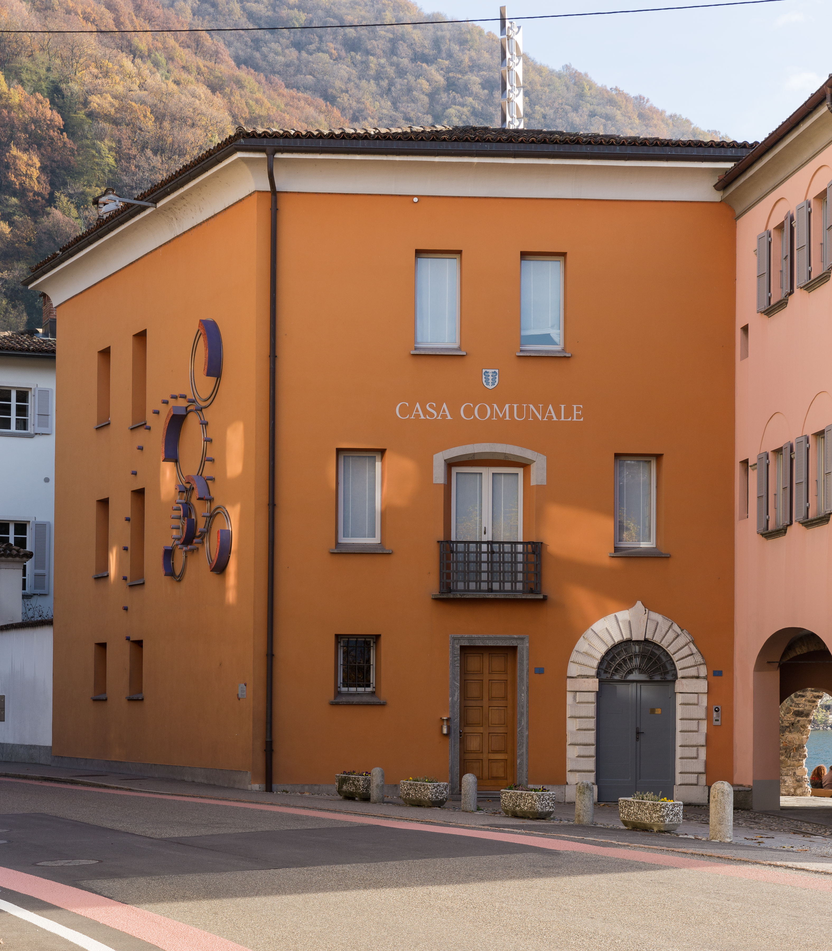 Casa Comunale in Bissone, Ticino, Switzerland.